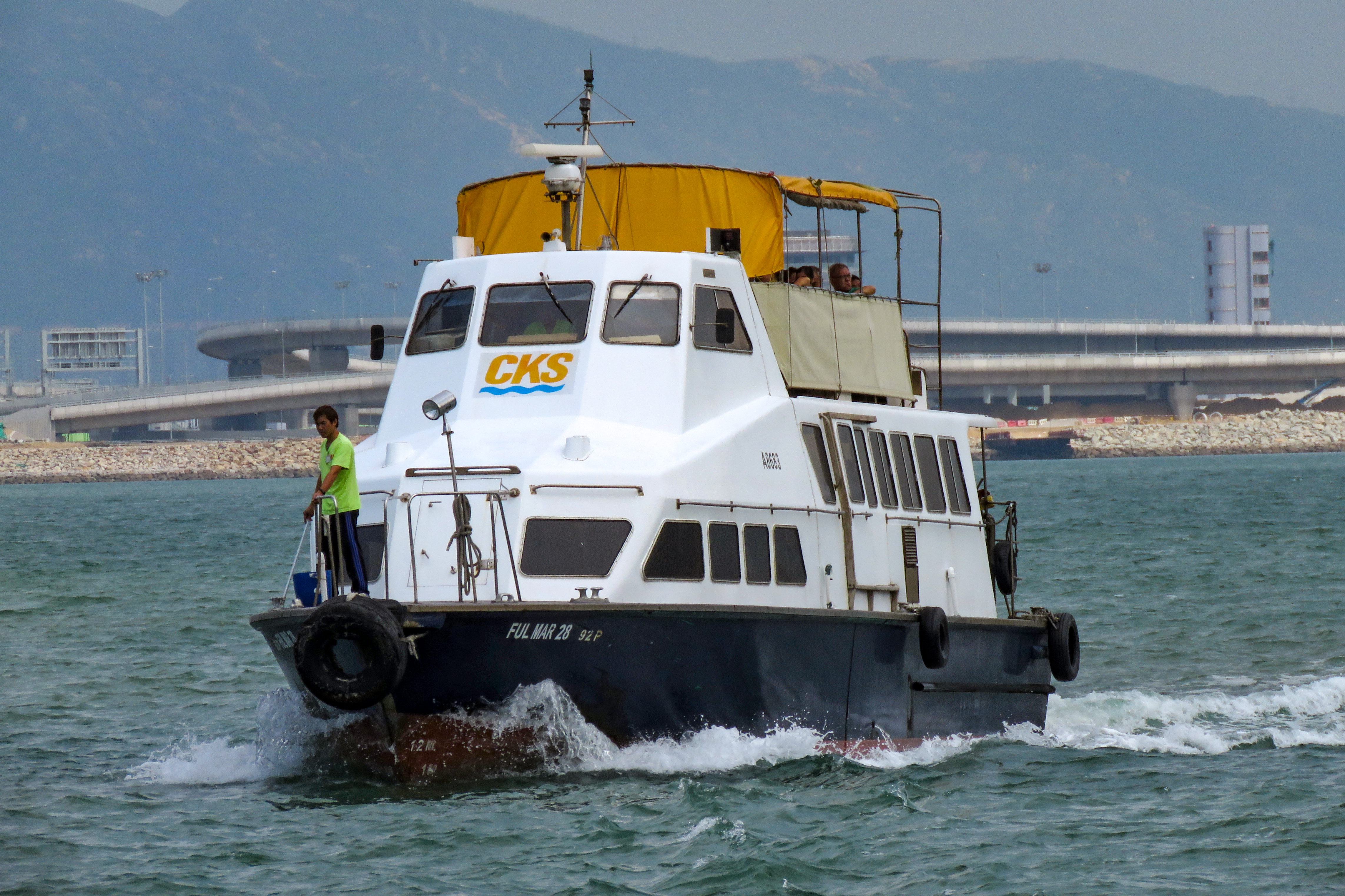 This fellow has a name "Ful Mar 28" - A8683 was formerly called "King Dragon 3"?